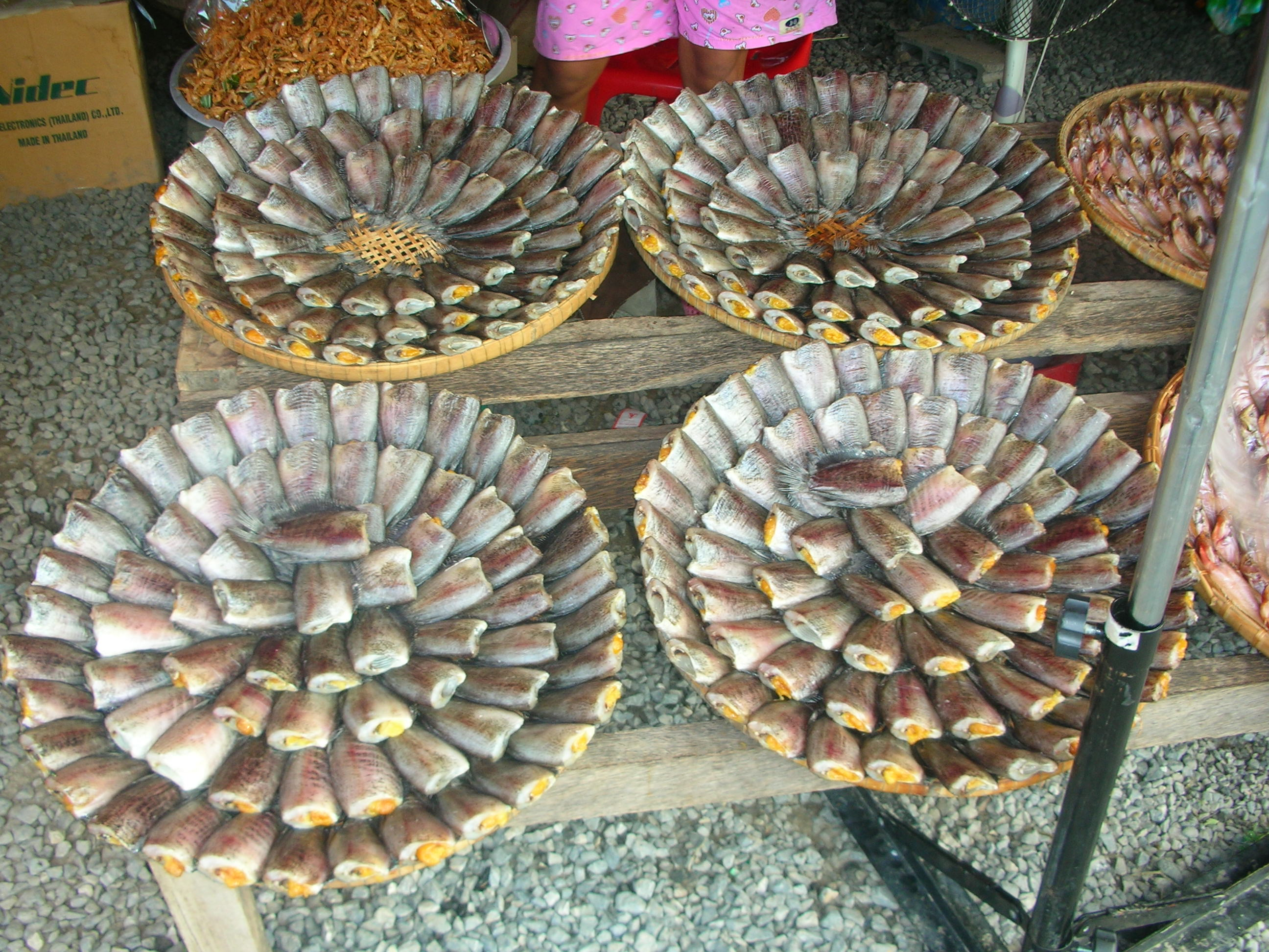 Dried Snakeskin Gourami with roes